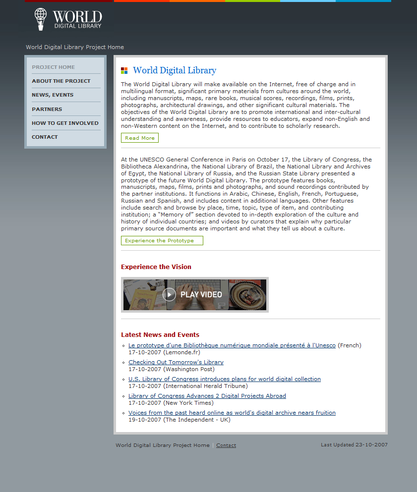 The World Digital Library.